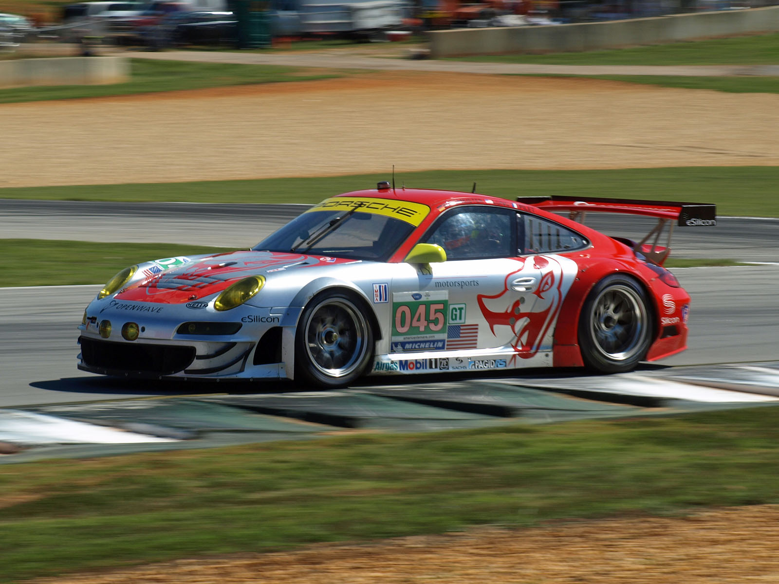 Jörg Bergmeister driving the Flying Lizard Motorsports Porsche 997 GT3-RSR in qualifying for the 2011 Petit Le Mans at Road Atlanta.